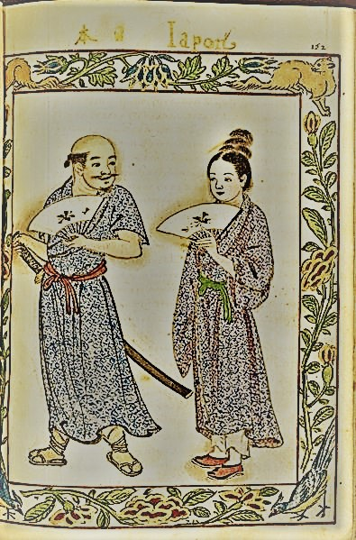 Japanese people in the Philippines as portrayed in Boxer Codex 1590